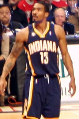 Luther Head of the Indiana Pacers vs Chicago Bulls, December 2009